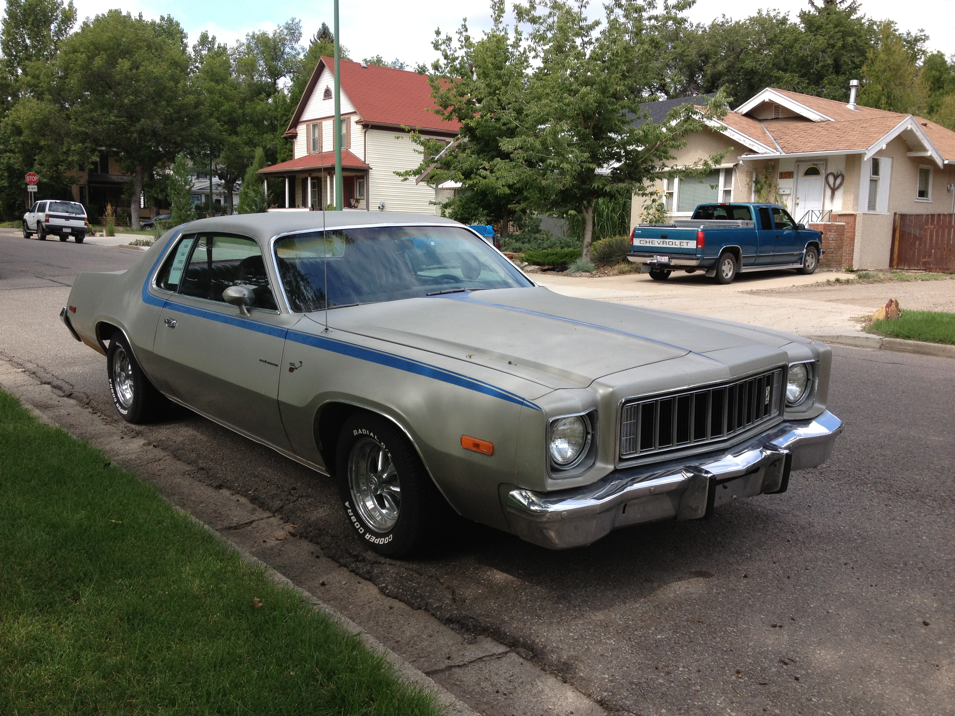 A one year only design on the B-body (Fury) platform there were only 7,183 Road Runners made in 1975. A 318cid V8 was standard while a 360cid or 400cid could be had. A found the ad for this one and it has the 360cid V8.